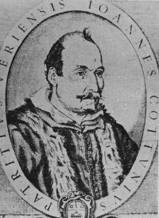 Ioannis Kottounios, (Greek: Ιωάννης Κοττούνιος) was an eminent Greek scholar. He was born in Veroia in 1572.